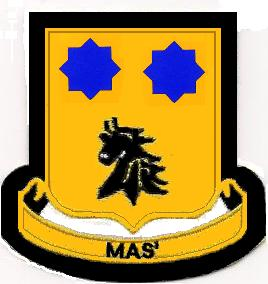 28th Cavalry Regiment Distinctive Unit Insignia. Drawn by me based on pictures I have seen. When you find a better version on a .mil site, feel free to upload it over this